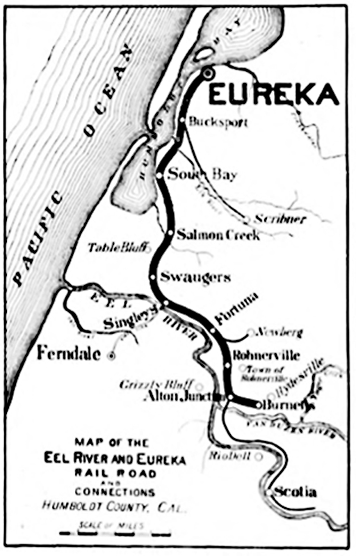 A map of the Eel River and Eureka Railroad originally published in The Overland Monthly Magazine, September 1896.